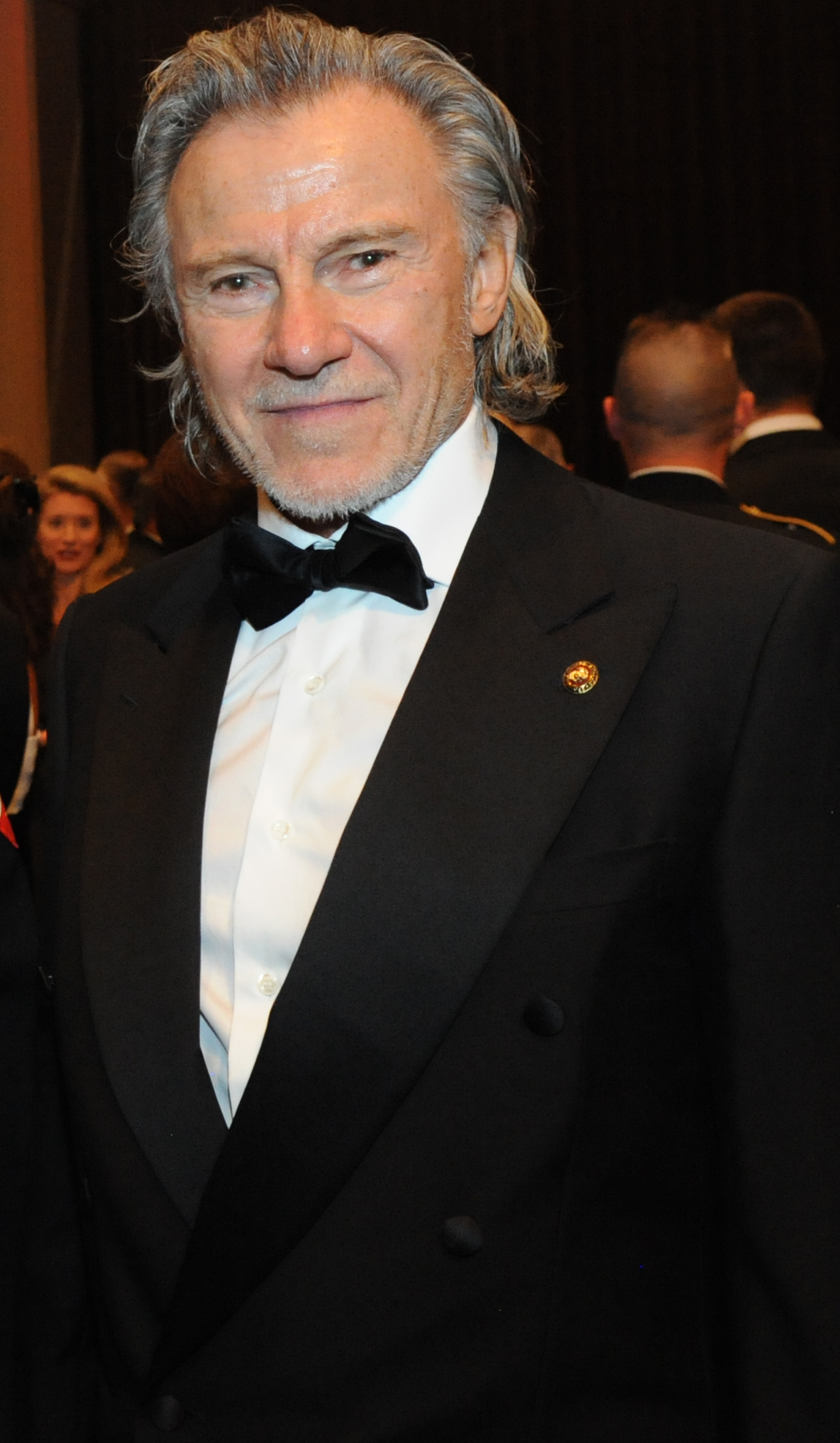 Harvey Keitel at the National Harbor convention center in Maryland for the Commandant's 2009 U.S. Marine Corps Birthday Ball where he was the Guest of Honor.